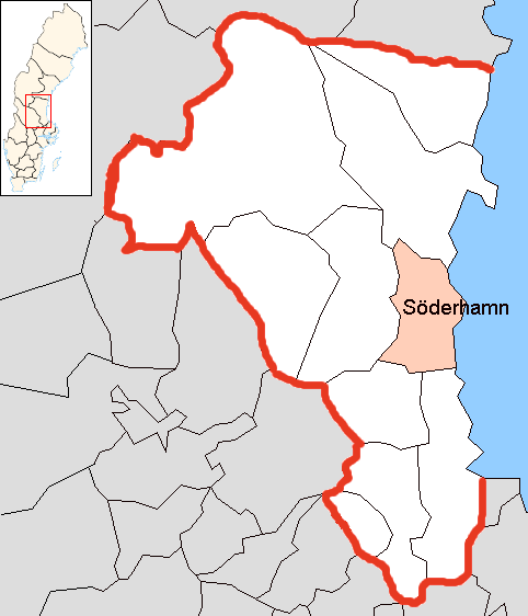 Söderhamn Municipality in Gävleborg County Designd by me, based on Image:Gävleborg County.png